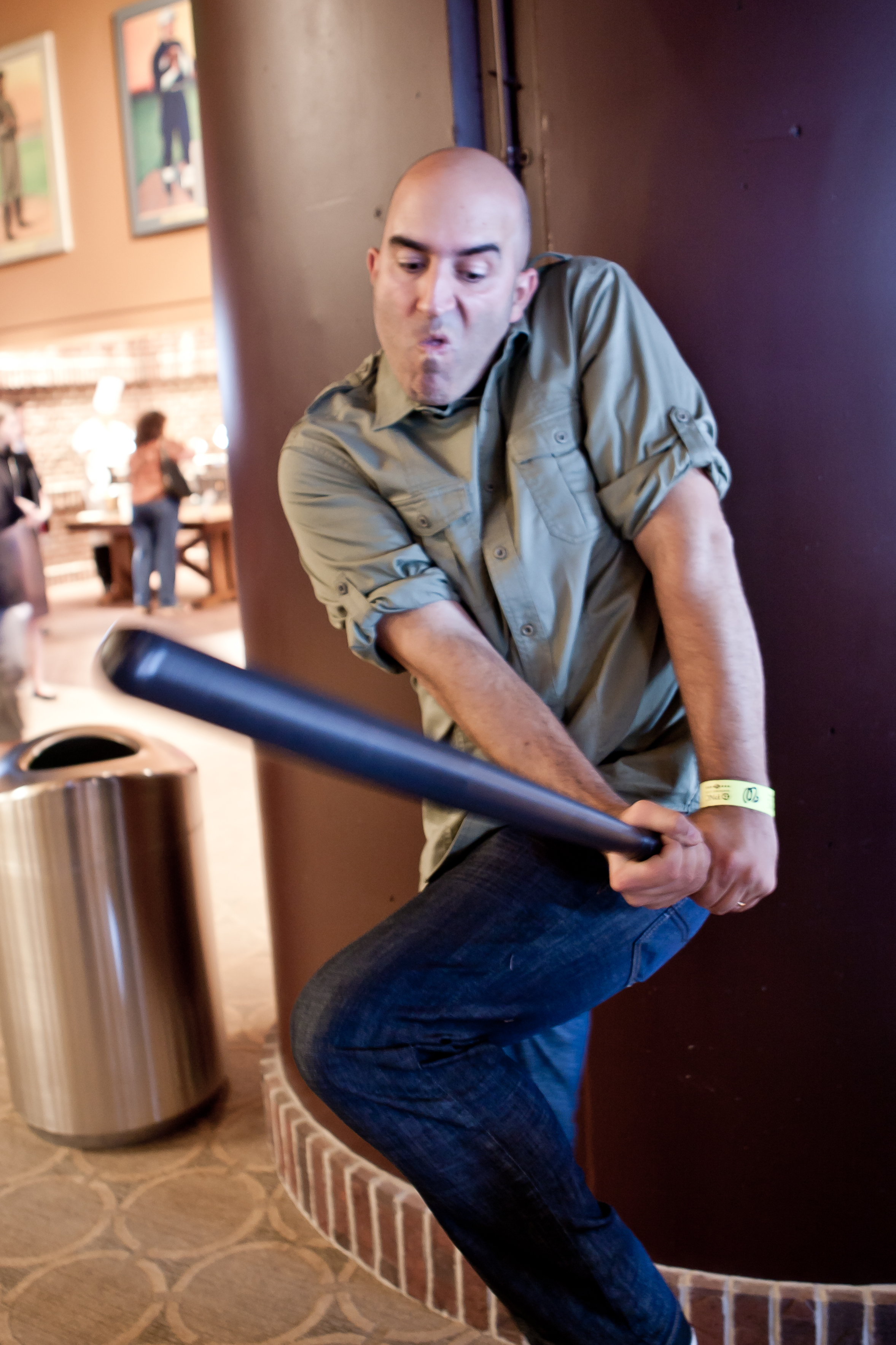 "Batting Stance Guy demonstrates Michael Morse's batter's box prep kick. Morse witnessed it. Good stuff!"